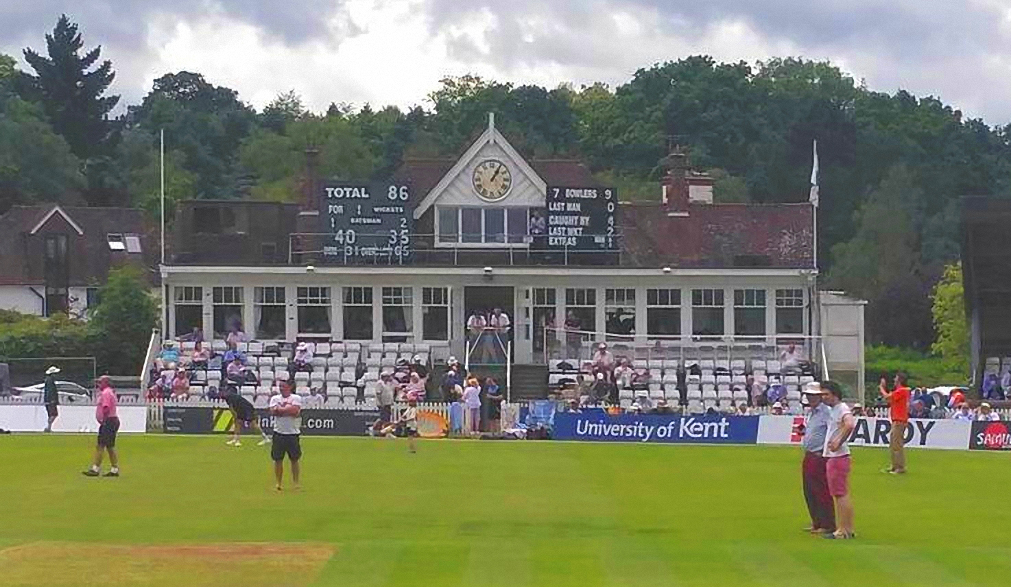 Photo taken by me at Day 1 of the Specsavers County Championship match between Kent CCC and Sussex CCC on 7 July 2016 at the Nevill Ground, Tunbridge Wells. The pavilion.